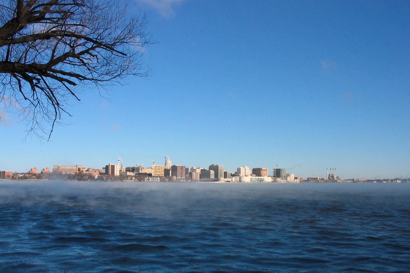 The Madison, Wisconsin skyline, seen from the shores of Lake Monona.